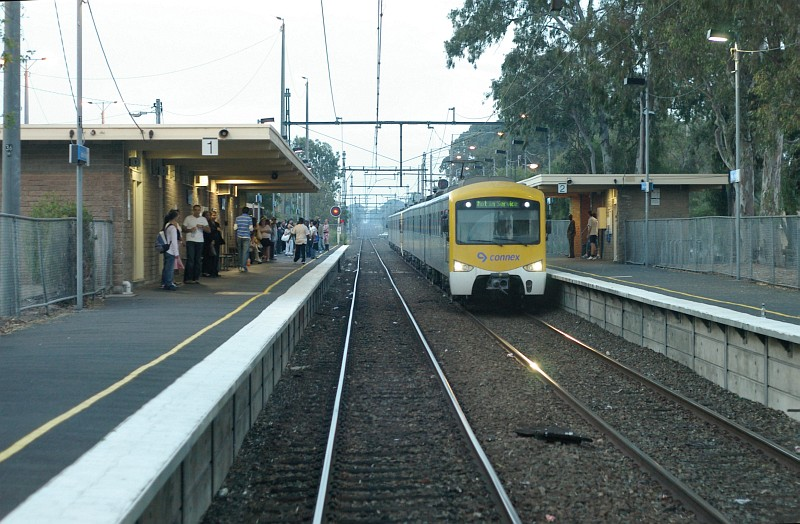 Siemens train pulling up at Noble Park Station